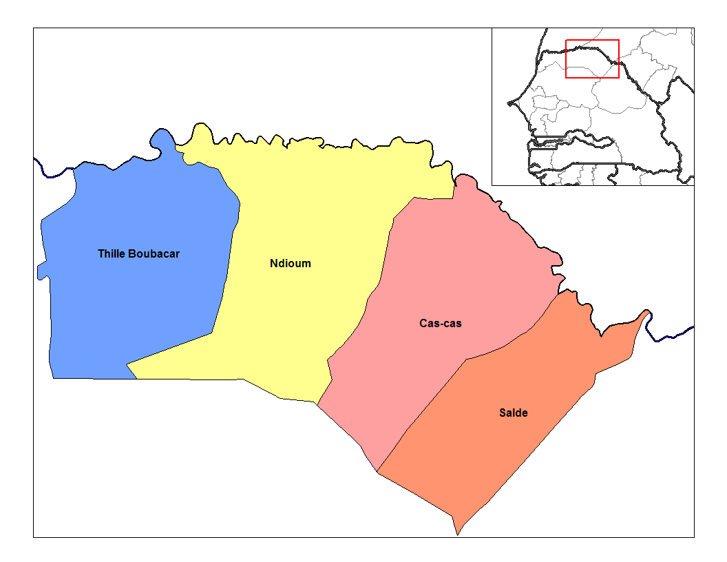 Map of the arrondissements of Podor department in Senegal.